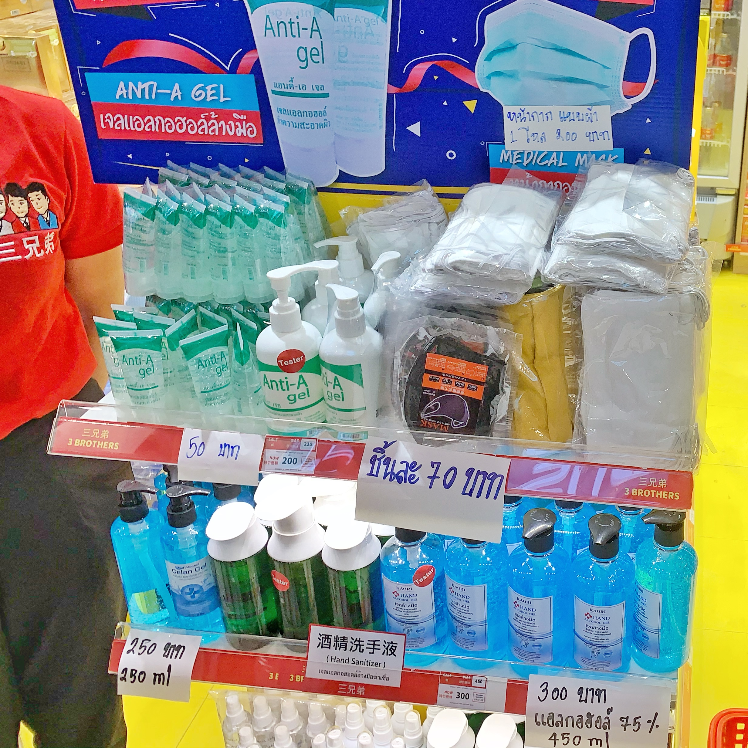 The price for COVID-19 prevention increased absurdly in Thailand, this image indicates the price tolls of surgical mask at THB70 per piece, almost 60 times higher than before the pandemic, and so do the hand sanitisers.